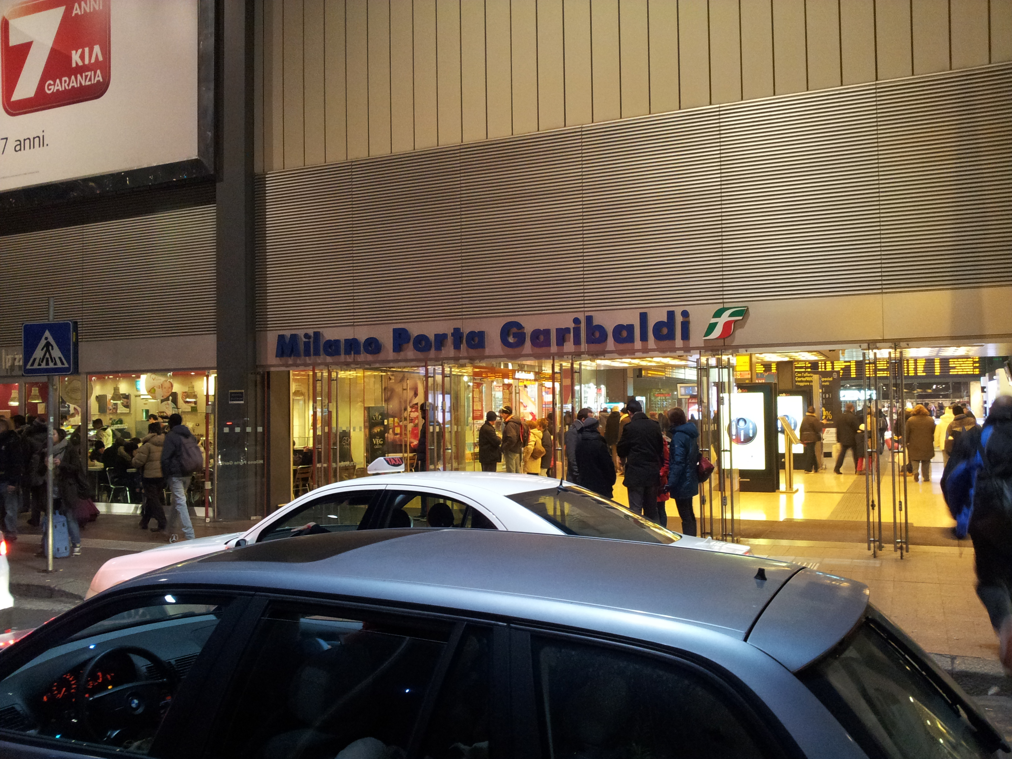 Entrance of Porta Garibaldi Railway Station, Milan, Italy.